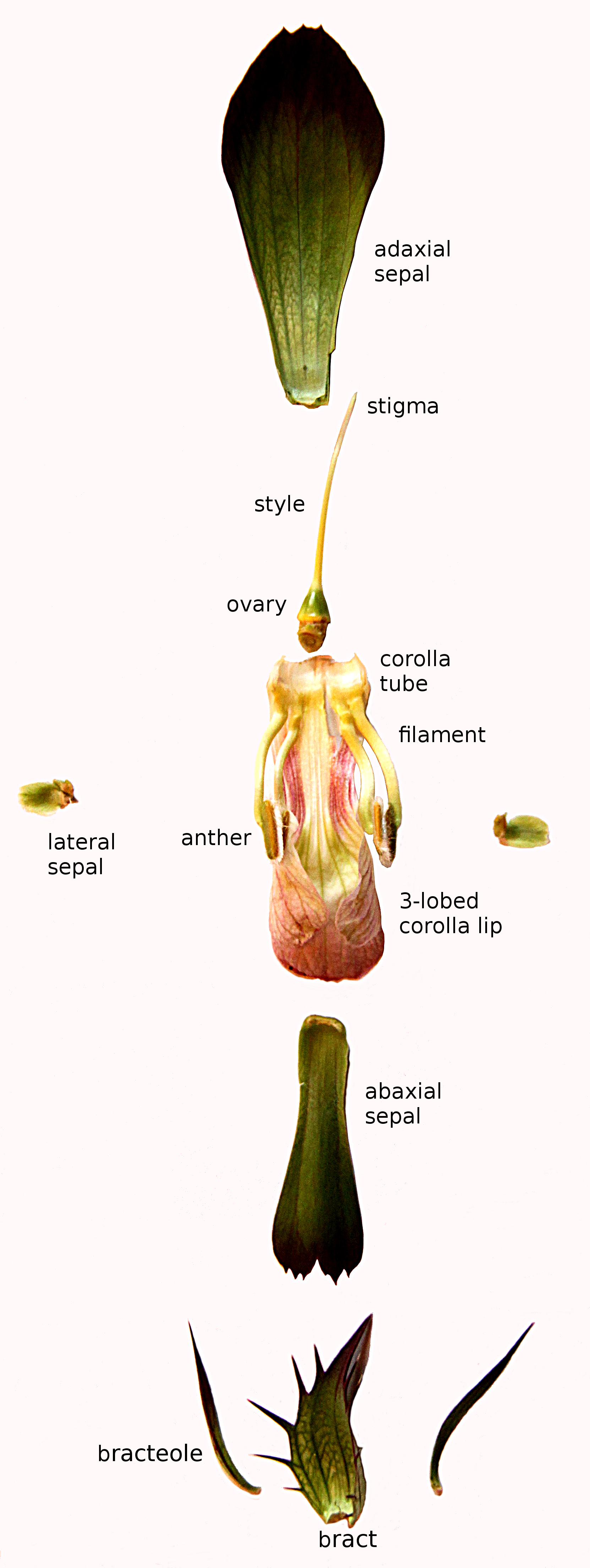 a dismembered flower of Acanthus mollis, with text